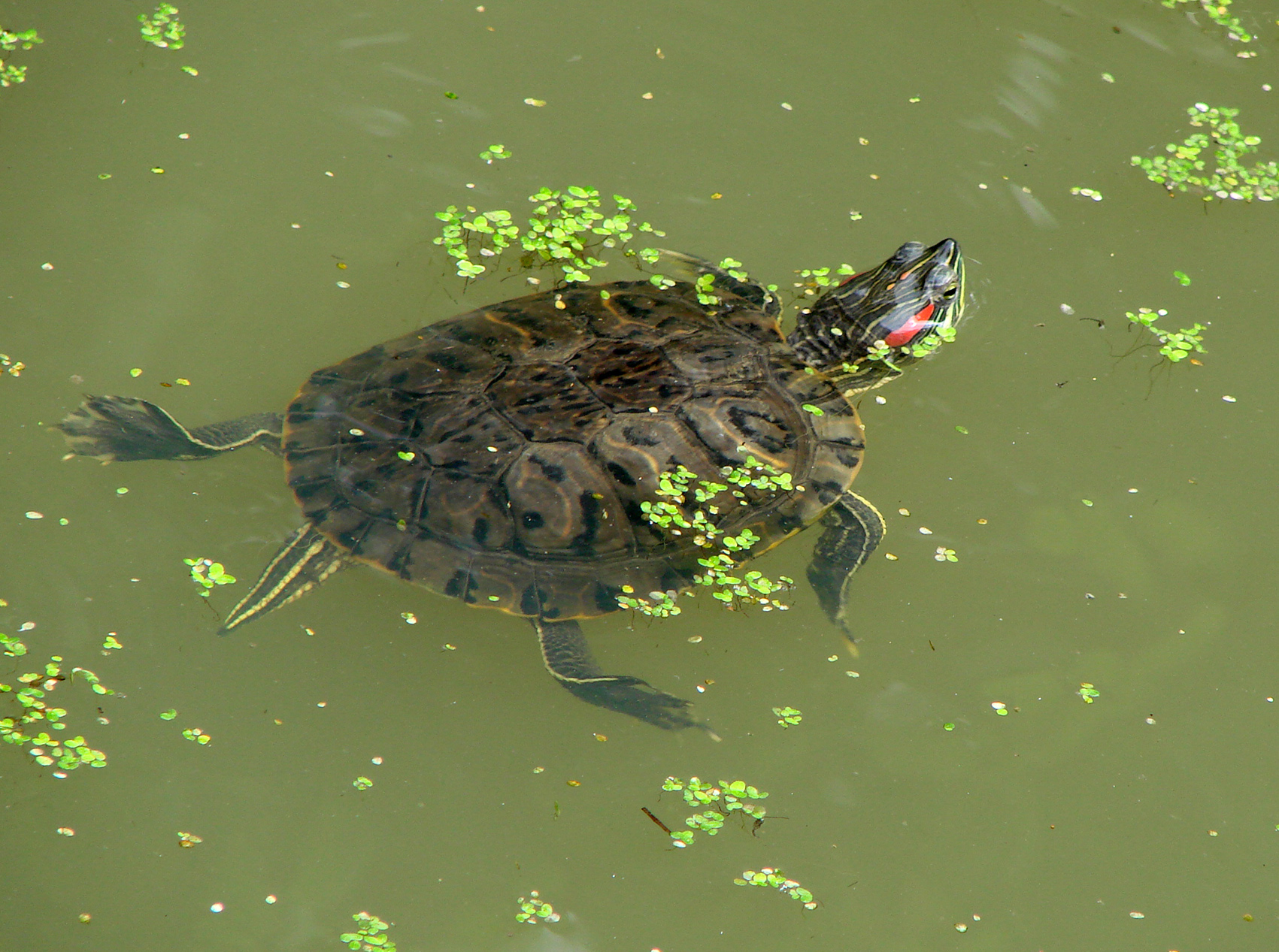 Young Red Eared Slider (Trachemys scripta elegans). Amiens Zoo.